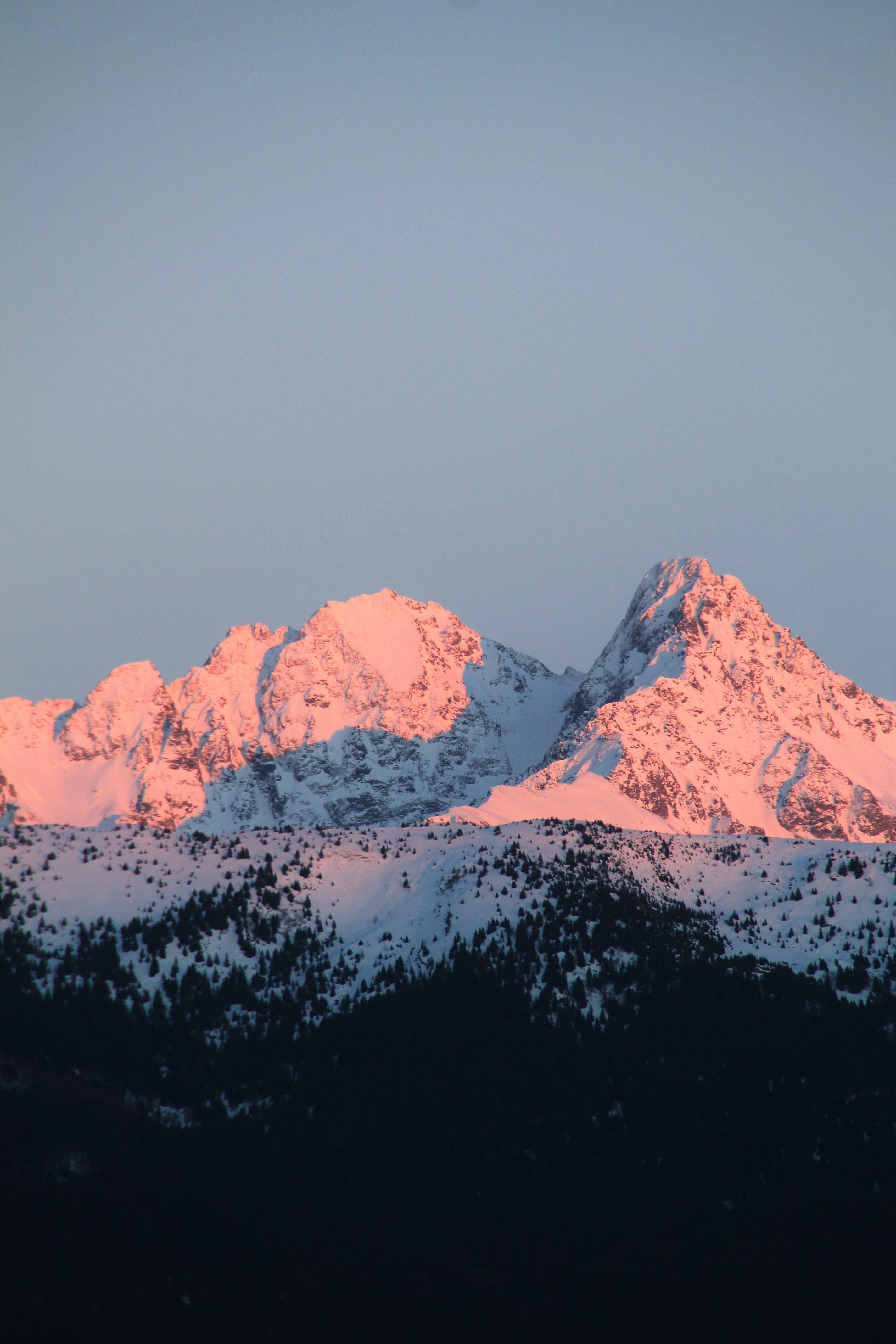 View from Saint Bernard du Touvet, the Belledonne's chain.